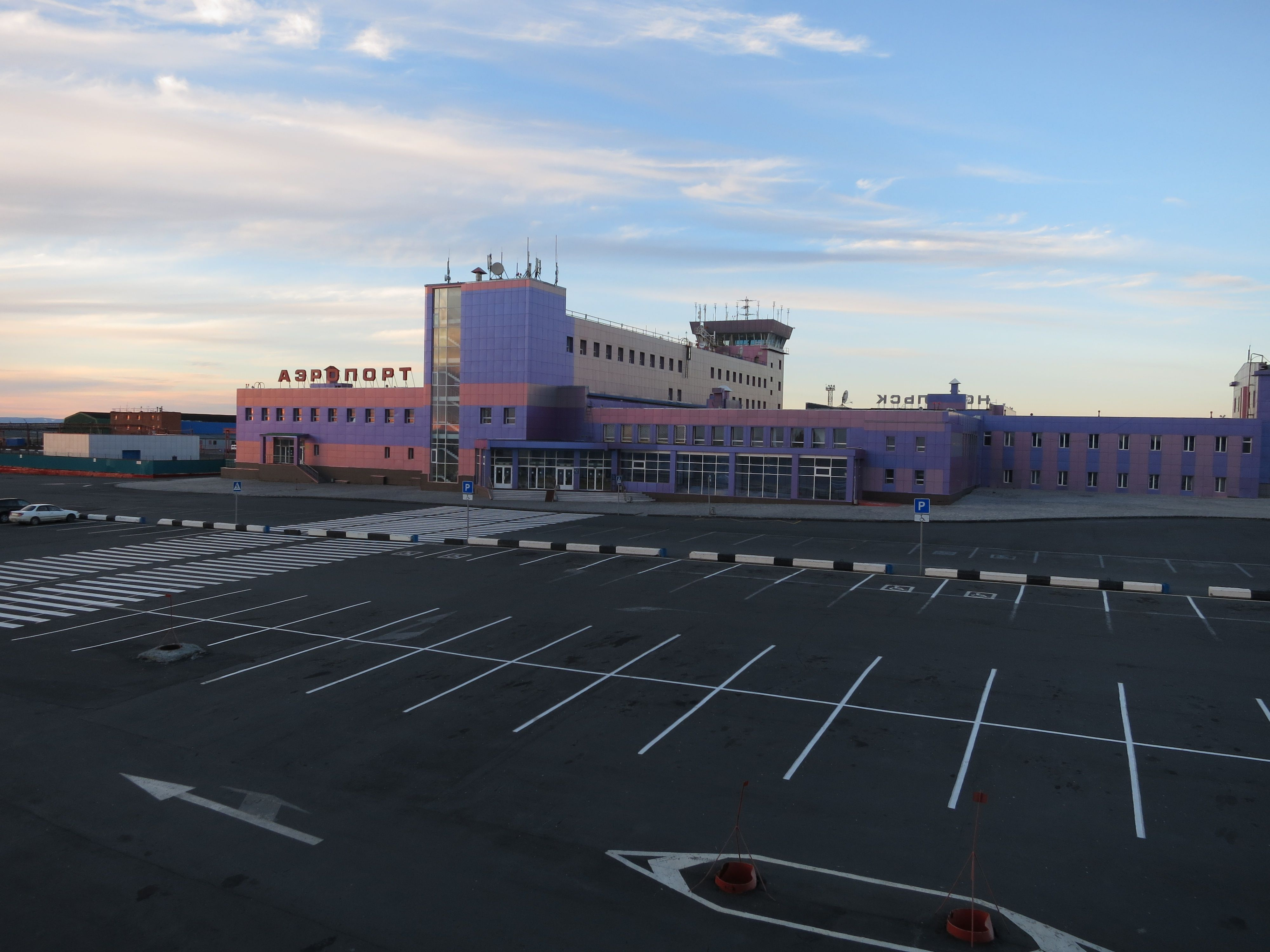 Norilsk